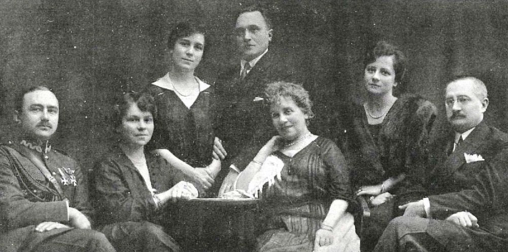 Left to Right: Romuald Wolikowski, Izabela Wolikowska, Maria Niklewicz, Mieczysław Niklewicz, Sofia Casanova, Halina Meissner, Czesław Meissner in or shortly prior to 1925